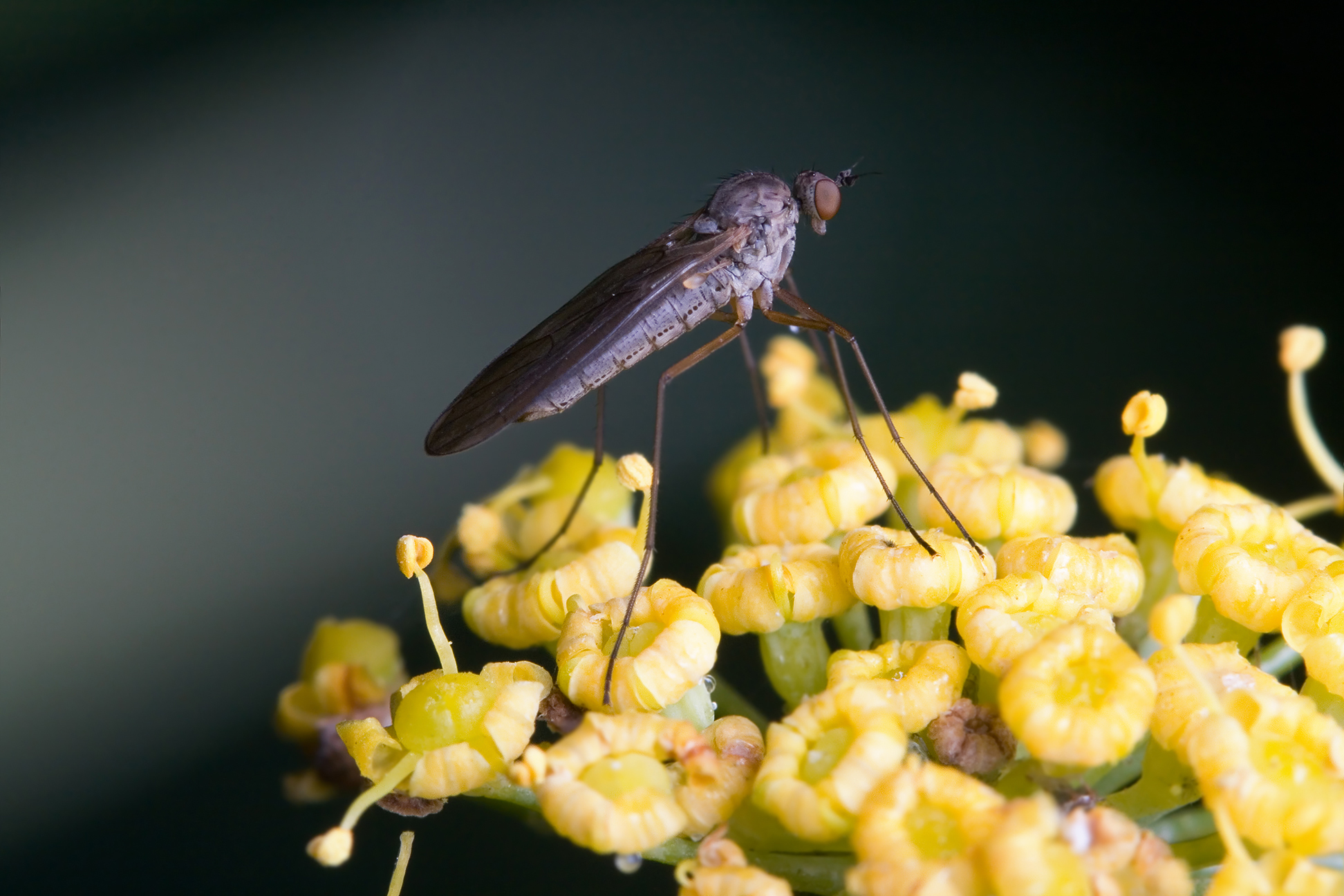 Empidoidea sp. on Anethum graveolens, Austin's Ferry, Tasmania, Australia Camera data Camera Canon EOS 400D Lens Tamron EF 180mm f3.5 1:1 Macro Flash Umbrella Right Focal length 180 mm Aperture f/10 Exposure time 1/160 s Sensivity ISO 400